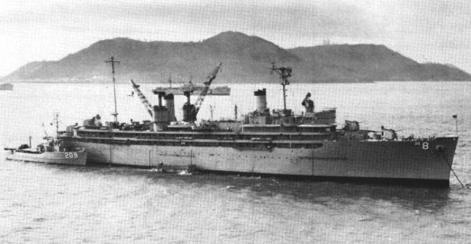 The U.S. Navy repair ship USS Jason (AR-8) off Vietnam with the coastal minesweeper USS Woodpecker (MSC-209) alongside, circa 1968.